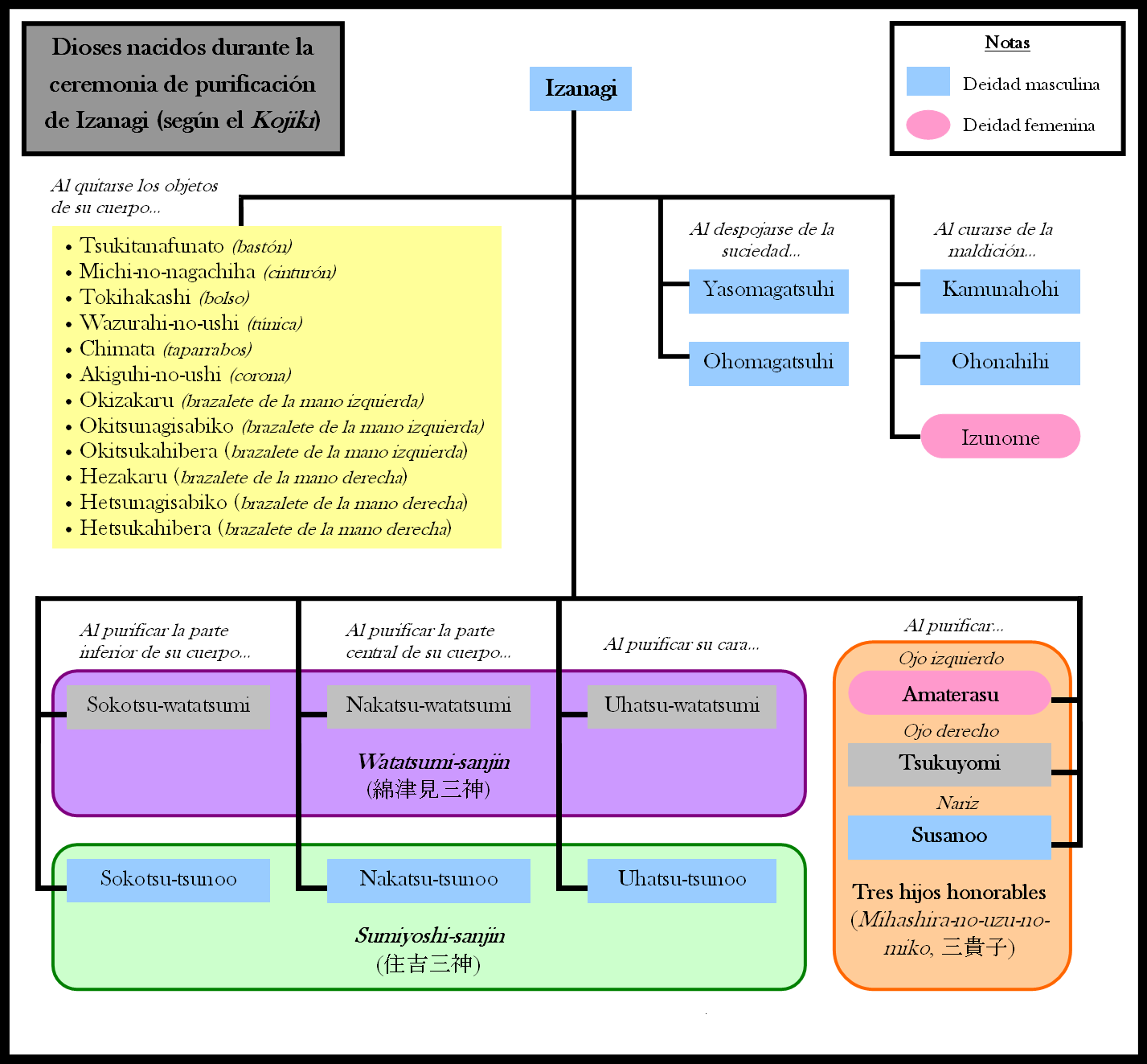 The purification of Izanagi